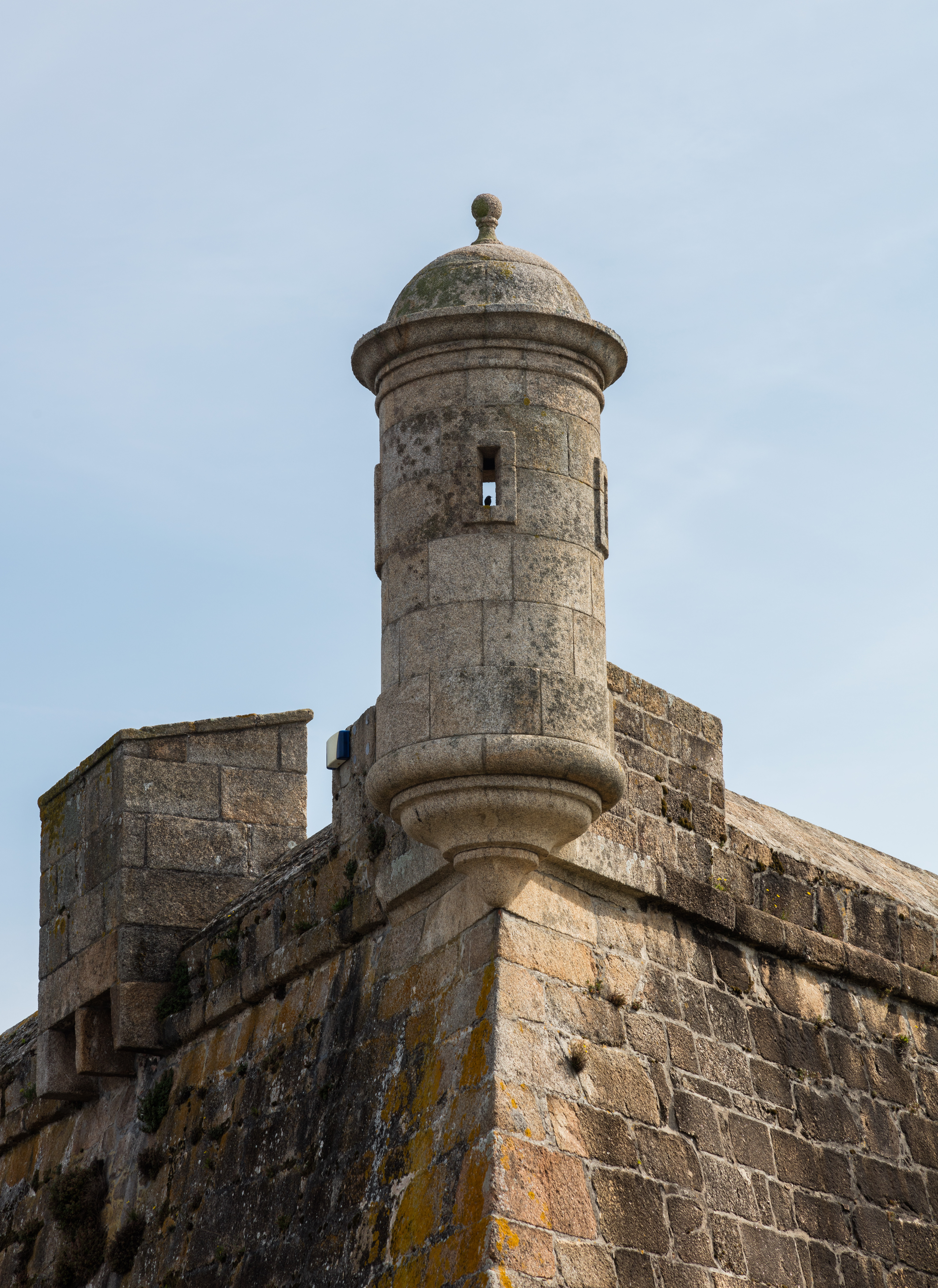 San Antón Castle, La Coruña, Spain